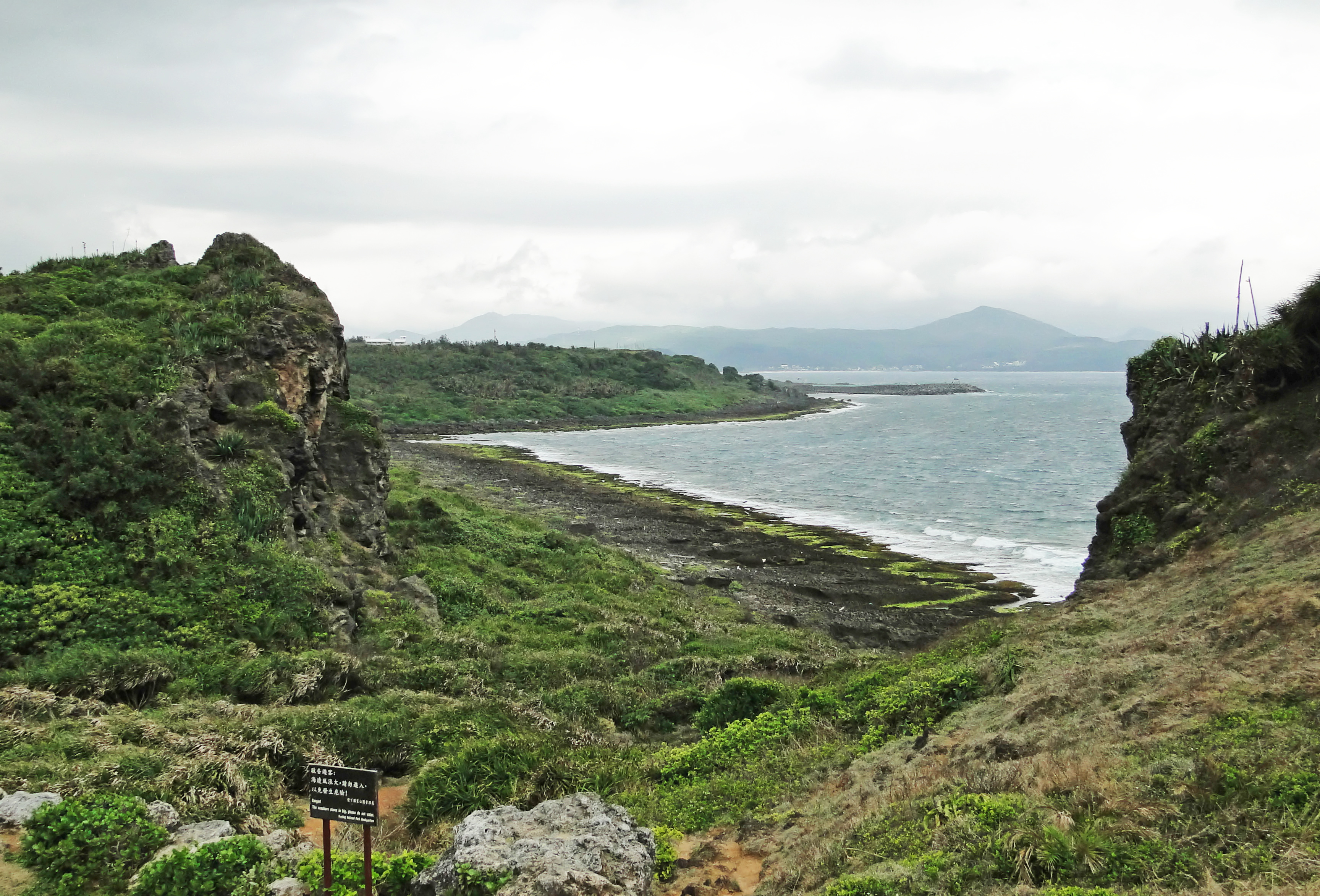 Moabitou Cape on South China Sea, Taiwan